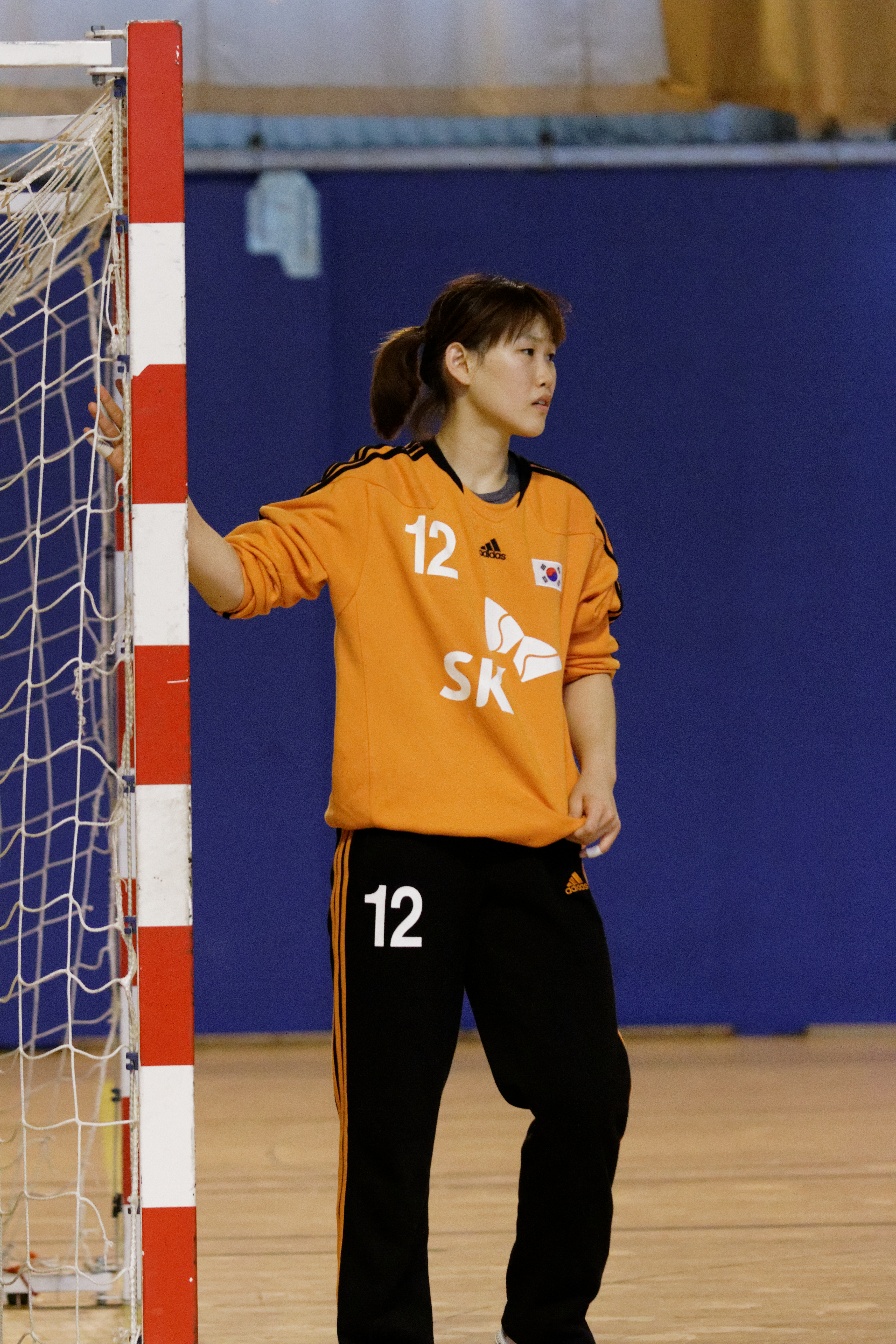 Issy Paris Hand - South Korea, 12 August 2014